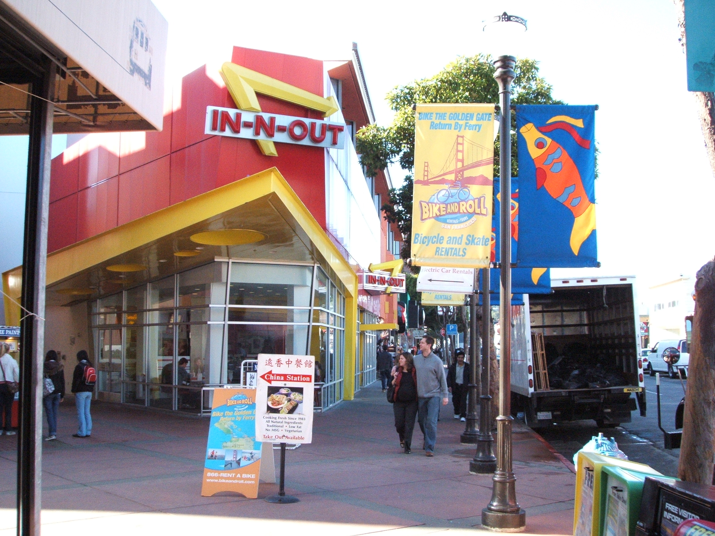 An In-N-Out Burger restaurant at Fisherman's Wharf, San Francisco, California, USA. Photo taken by allenlai7 on January 8, 2007.